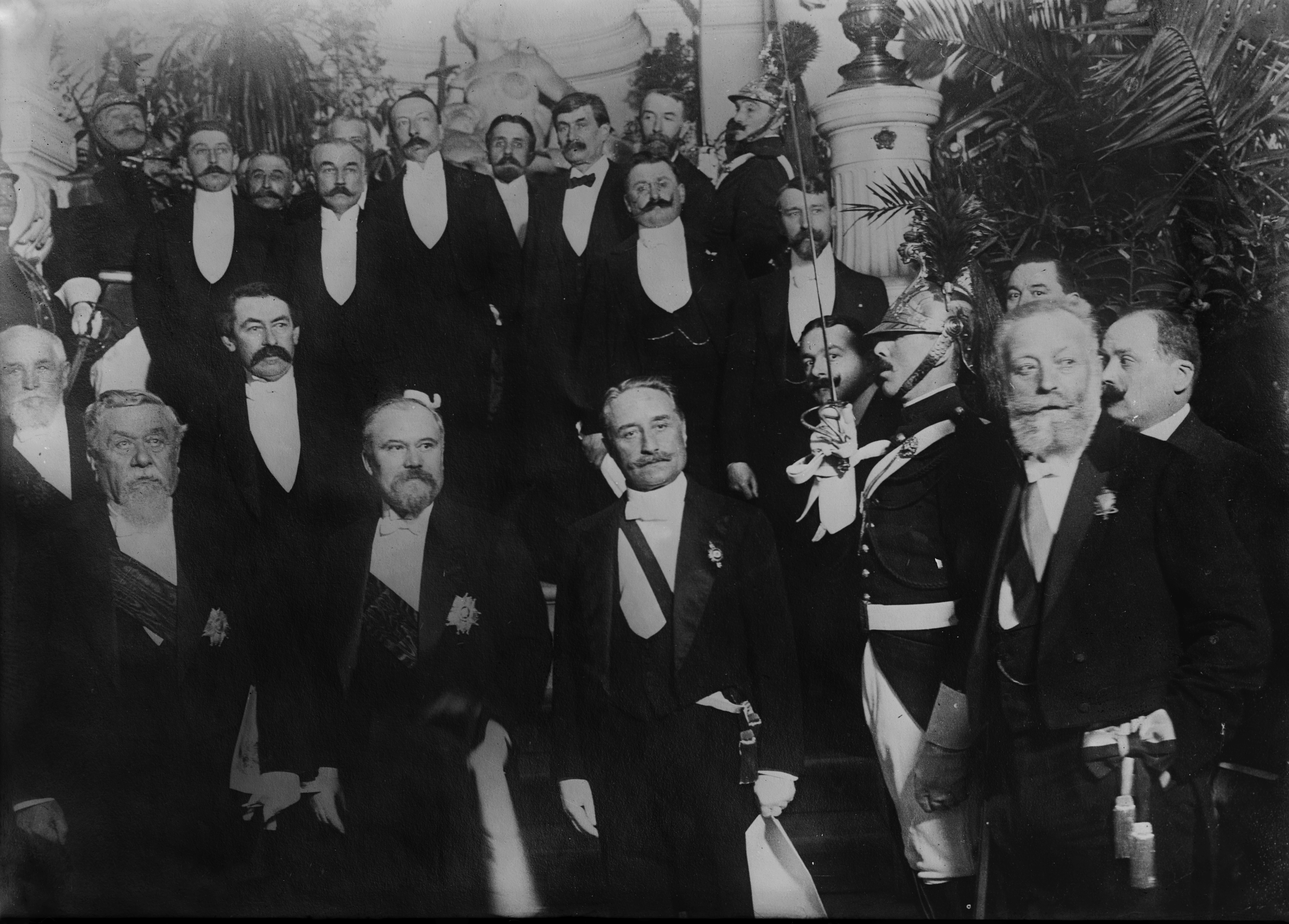 Inauguration of Poincare, Paris Photo shows the new president of France, Raymond Poincare (1860-1934), in a large group of men.